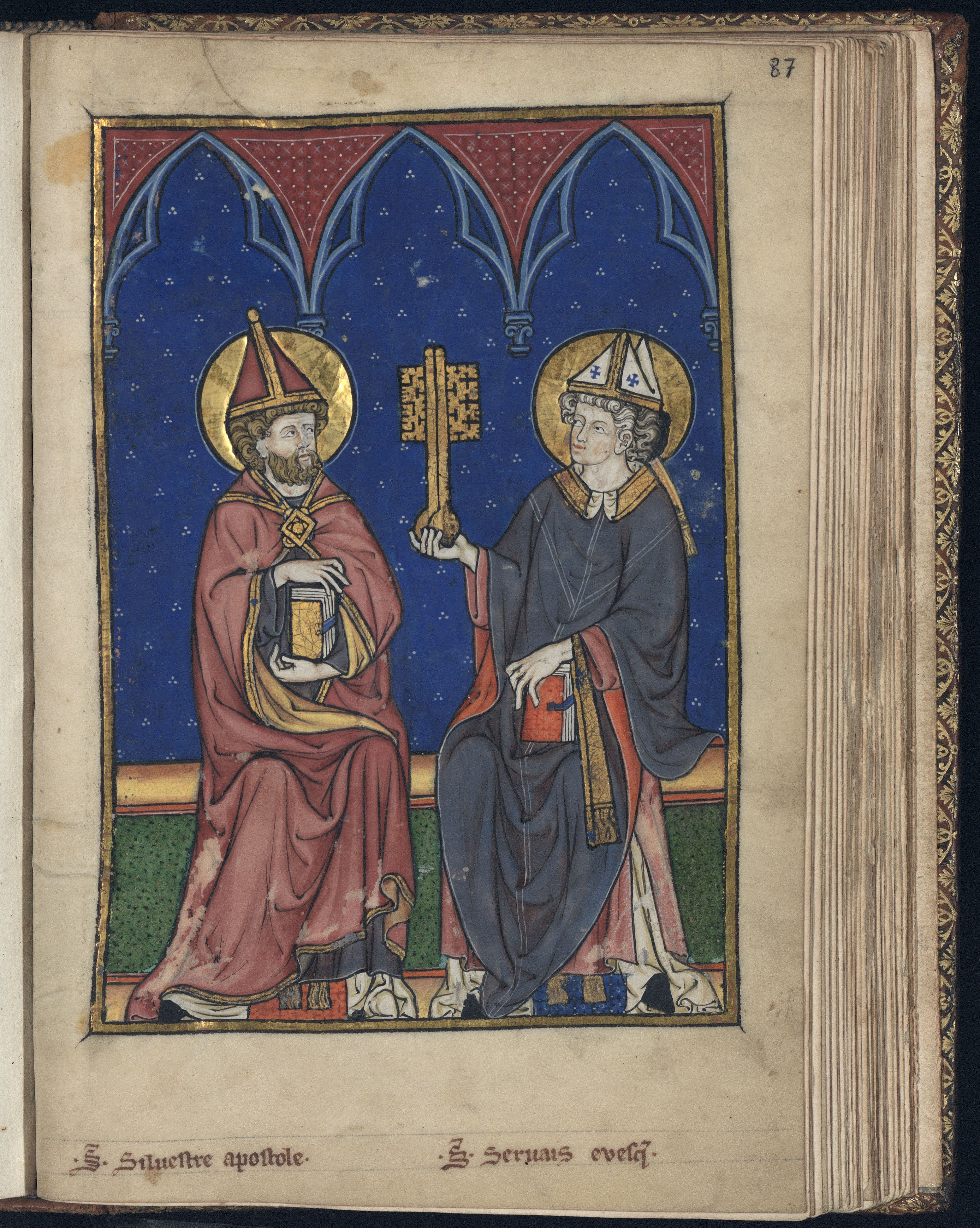 Pope Saint Sylvester I (left) and Saint Servatius (right) in the Livre d'images de Madame Marie.